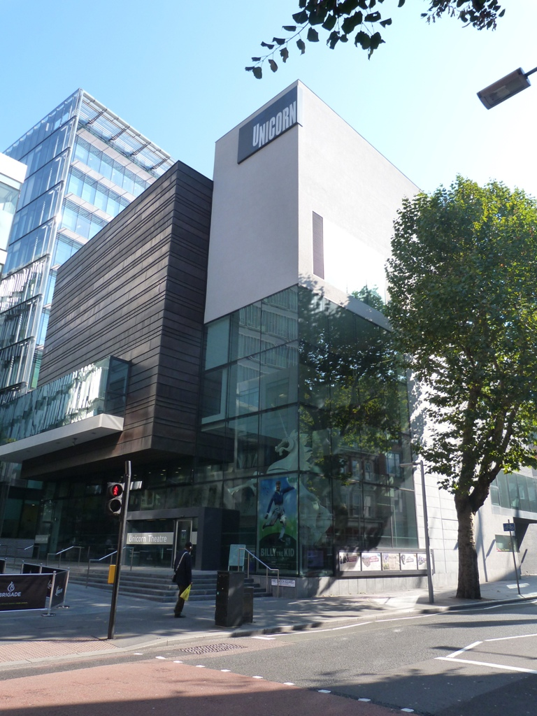 Unicorn Theatre, 147 Tooley Street, London Bridge